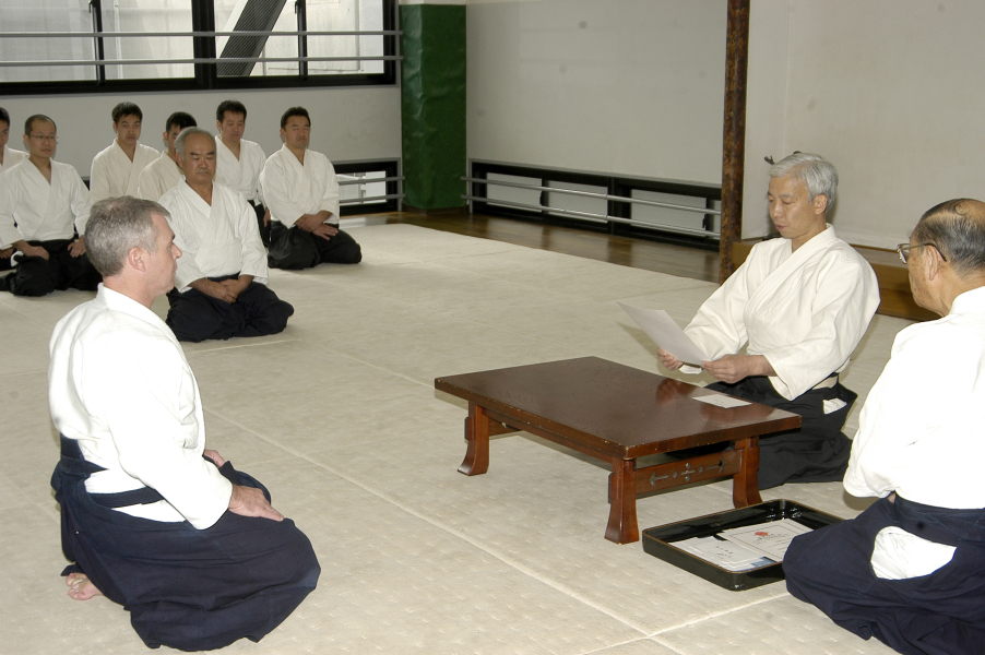 Mooney Sensei receiving his Shihan certification from Sandai Doshu overseen by Mr Tani and Chiba Sensei.